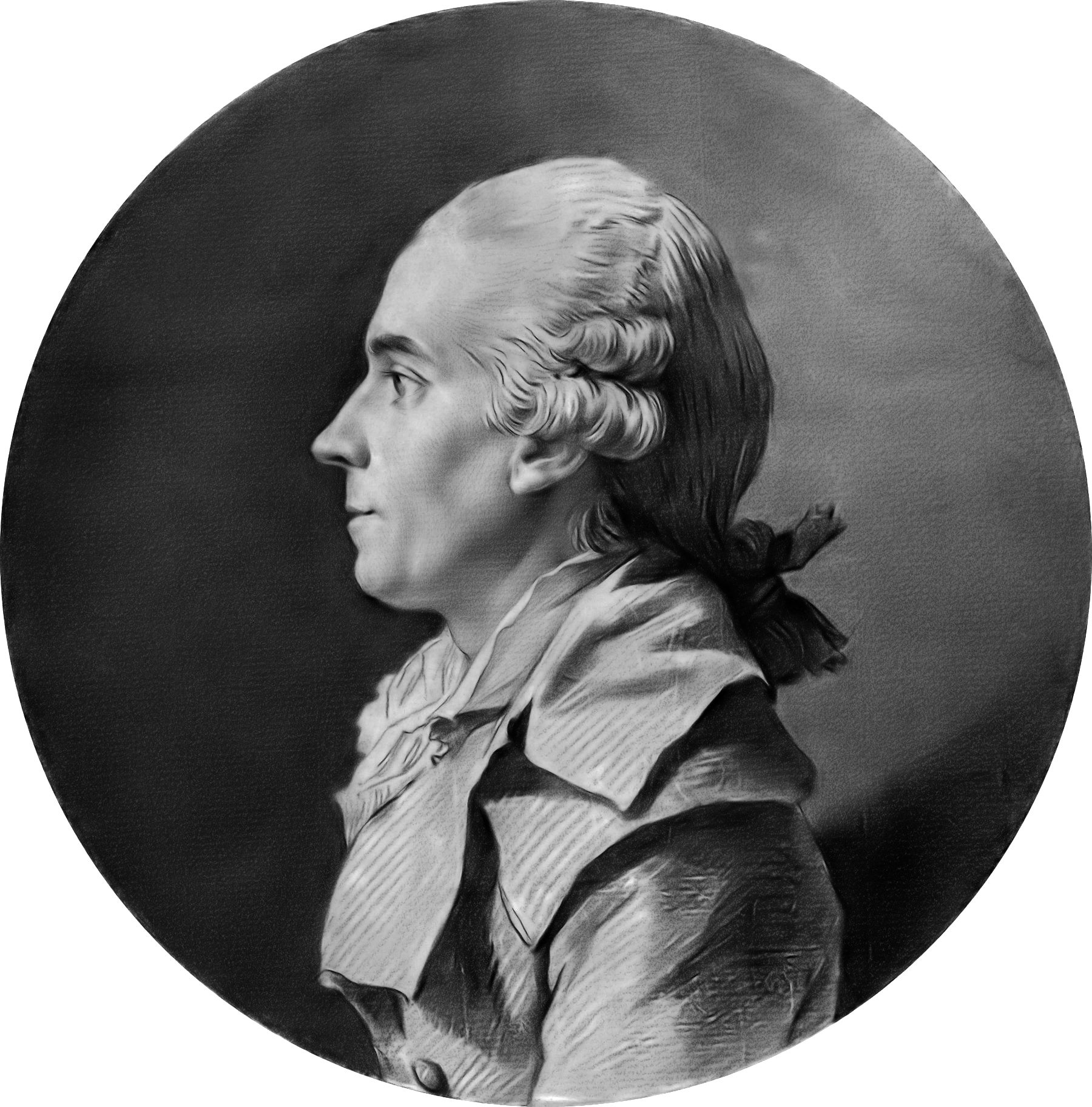 Félix le Peltier de Saint Fargeau (1769-1837) ca. 1745-ca. 1800